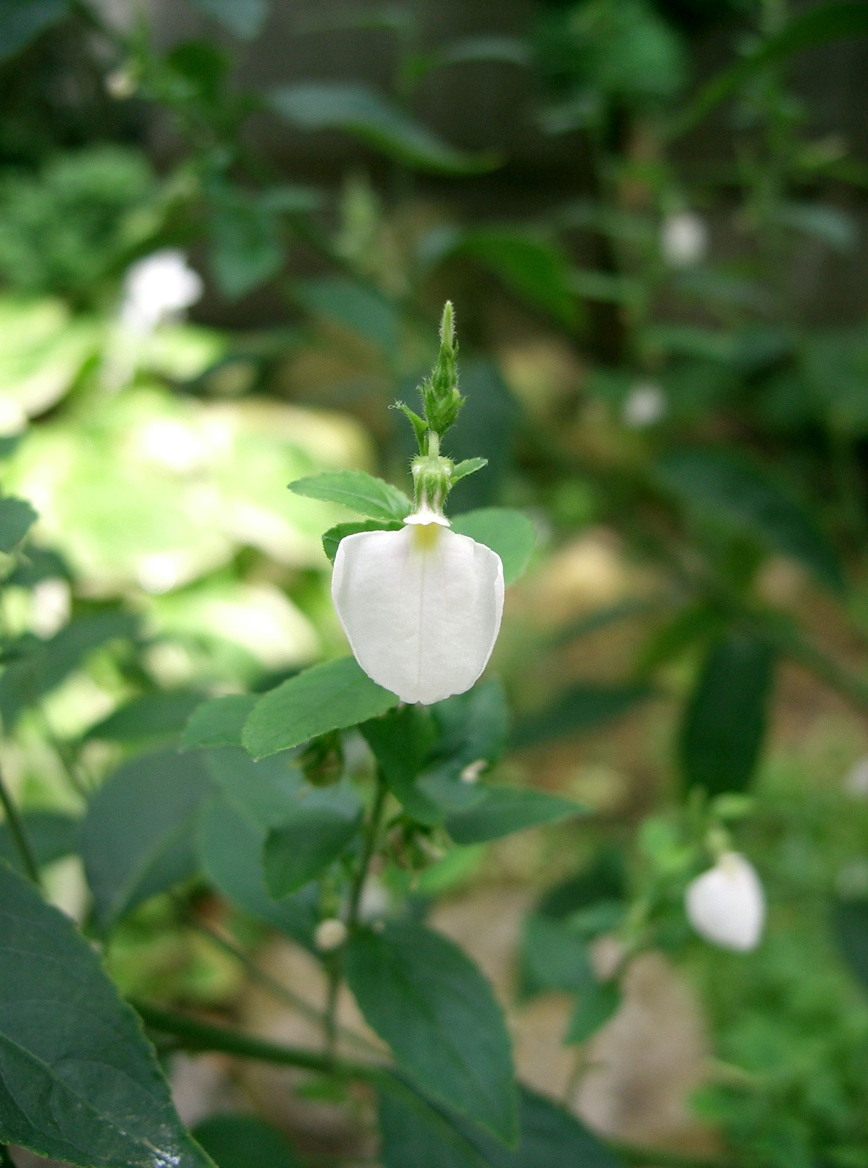 Scientific name Hybanthus communis Place:Osaka-fu Japan